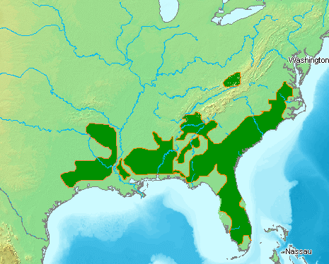 Distribution Map of Picoides borealis